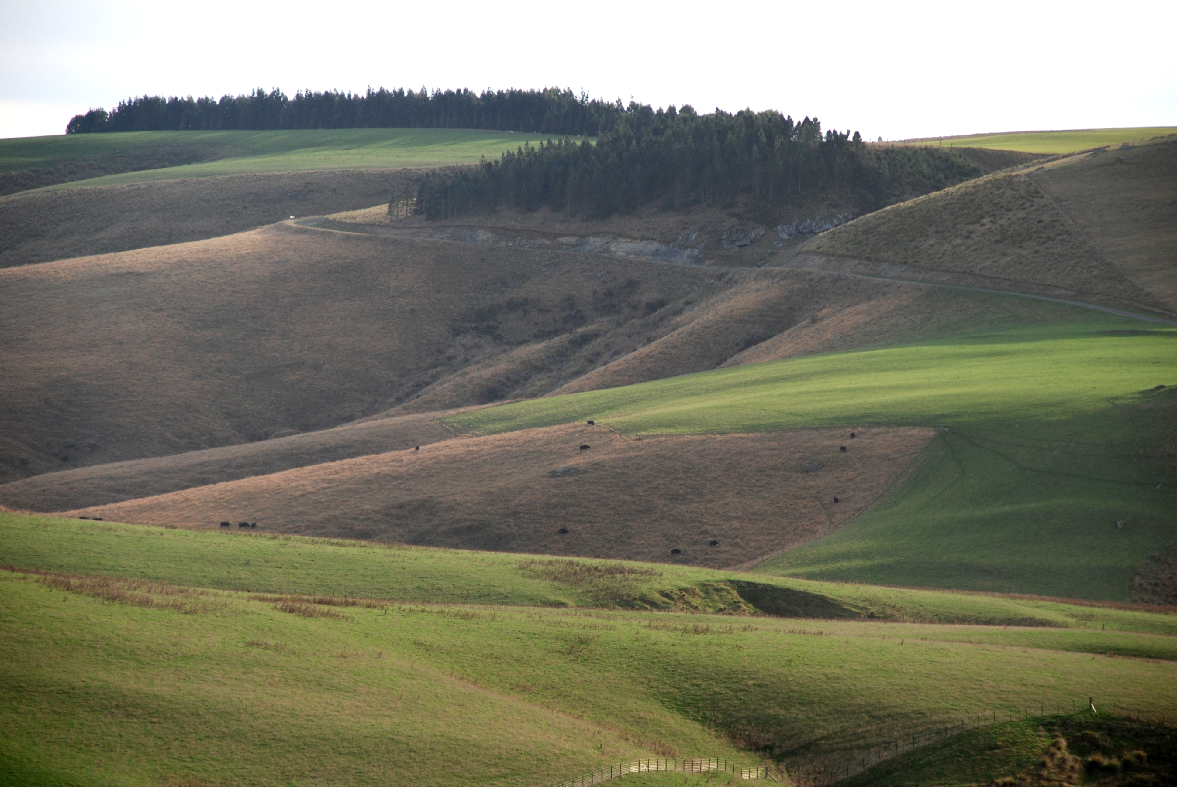 Between Outram and Middlemarch. Otago Region.